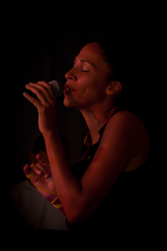 Betina Ignacio in Konstanz, 18.09.2010